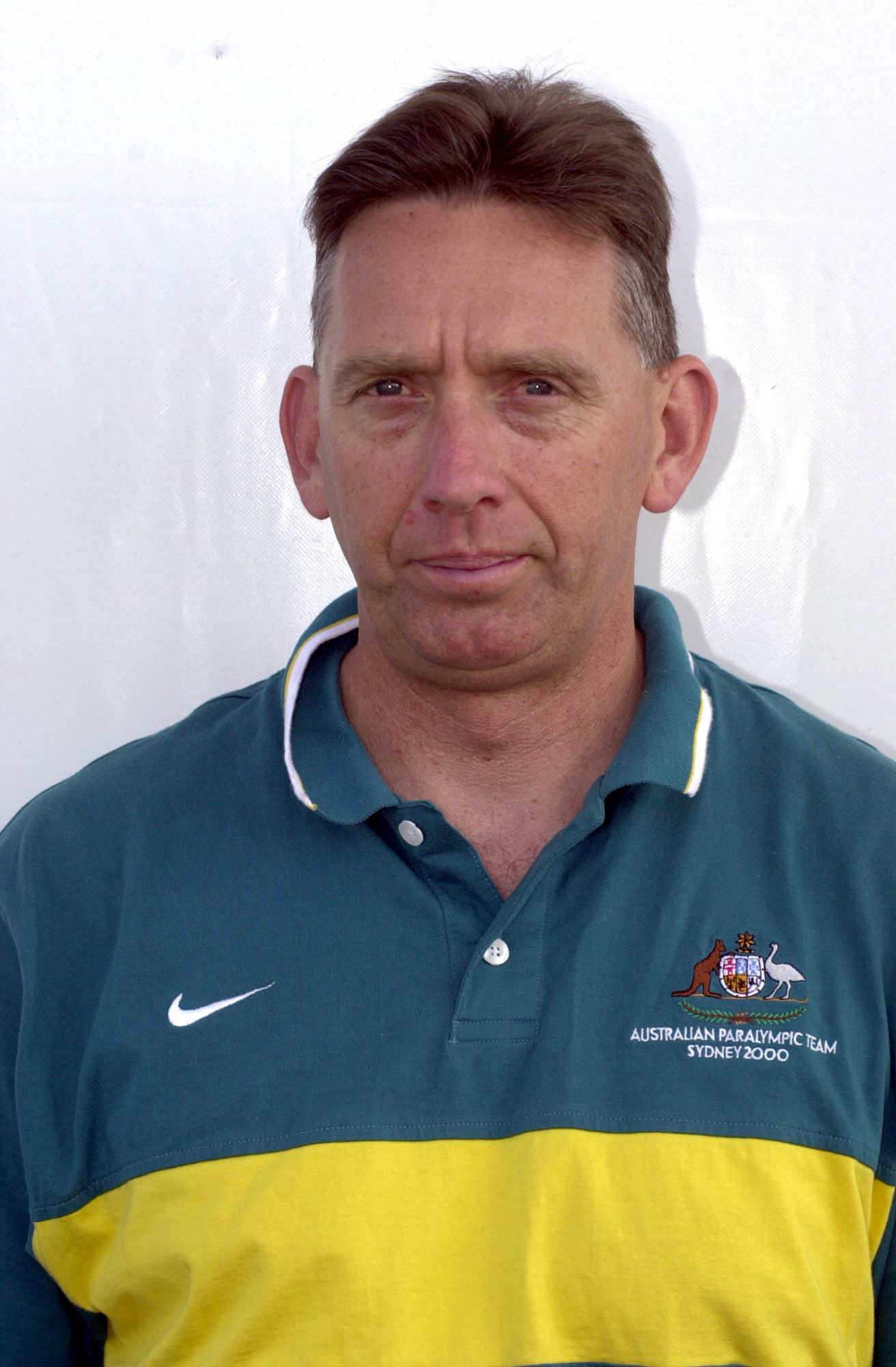 Portrait of Australian road and track cycling head coach Kevin McIntosh at the 2000 Sydney Paralympic Games